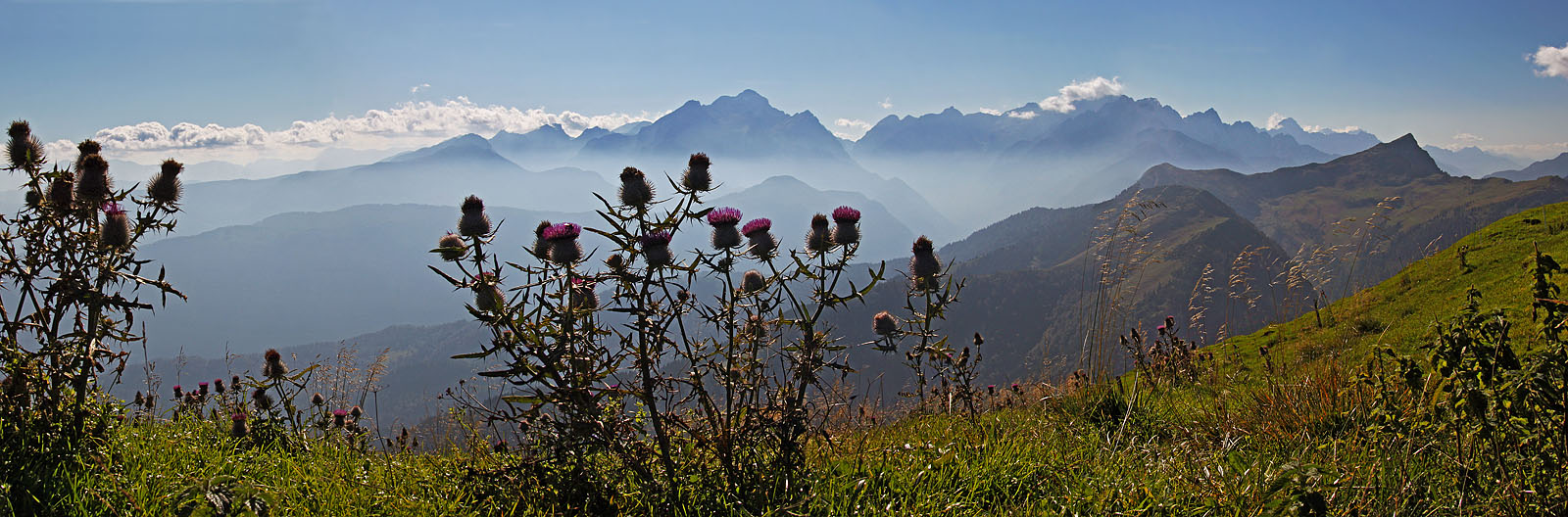 On the summit of Golica mountain, the view towards Julian Alps.